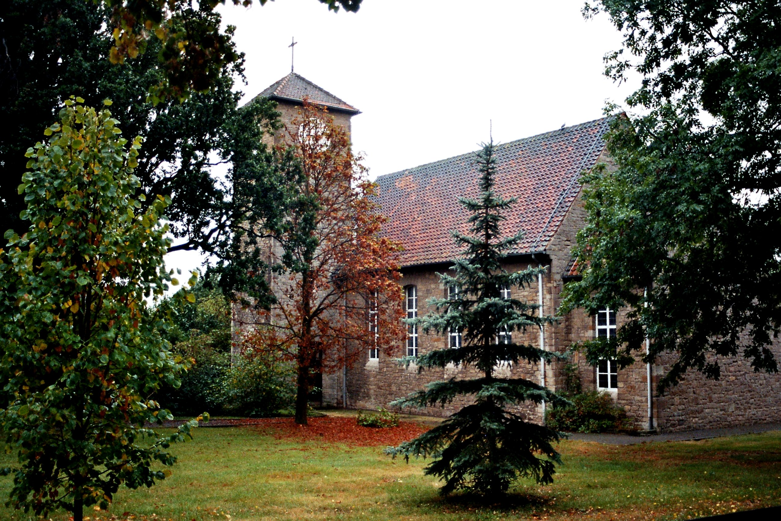 Schackenthal (Aschersleben), die village church Martin LutherThis is a photograph of an architectural monument. 81329